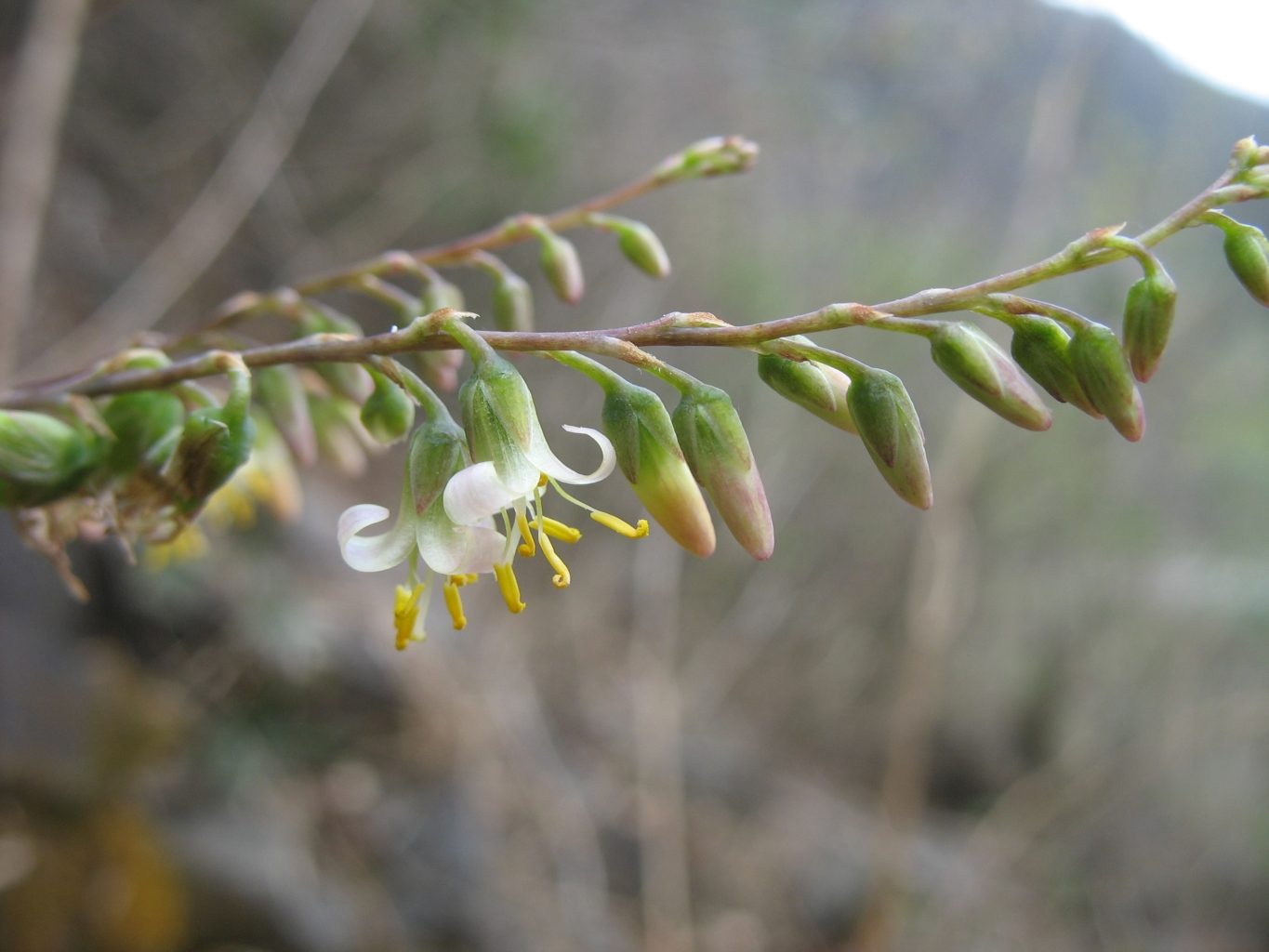 Fosterella penduliflora in habitat in Bolivia, exact location unknown.